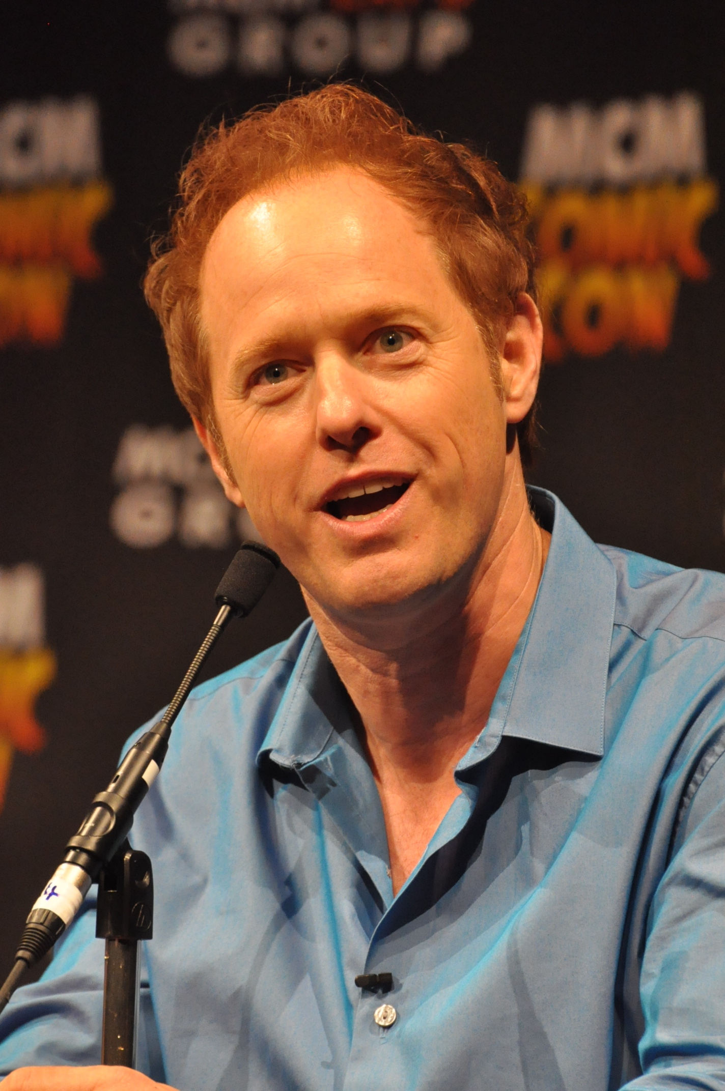 DSC_0619 MCM London Comic Con, Once Upon A Time Panel with Jane Espenson, Raphael Sbarge, Keegan Connor Tracy and Jessy Schram.